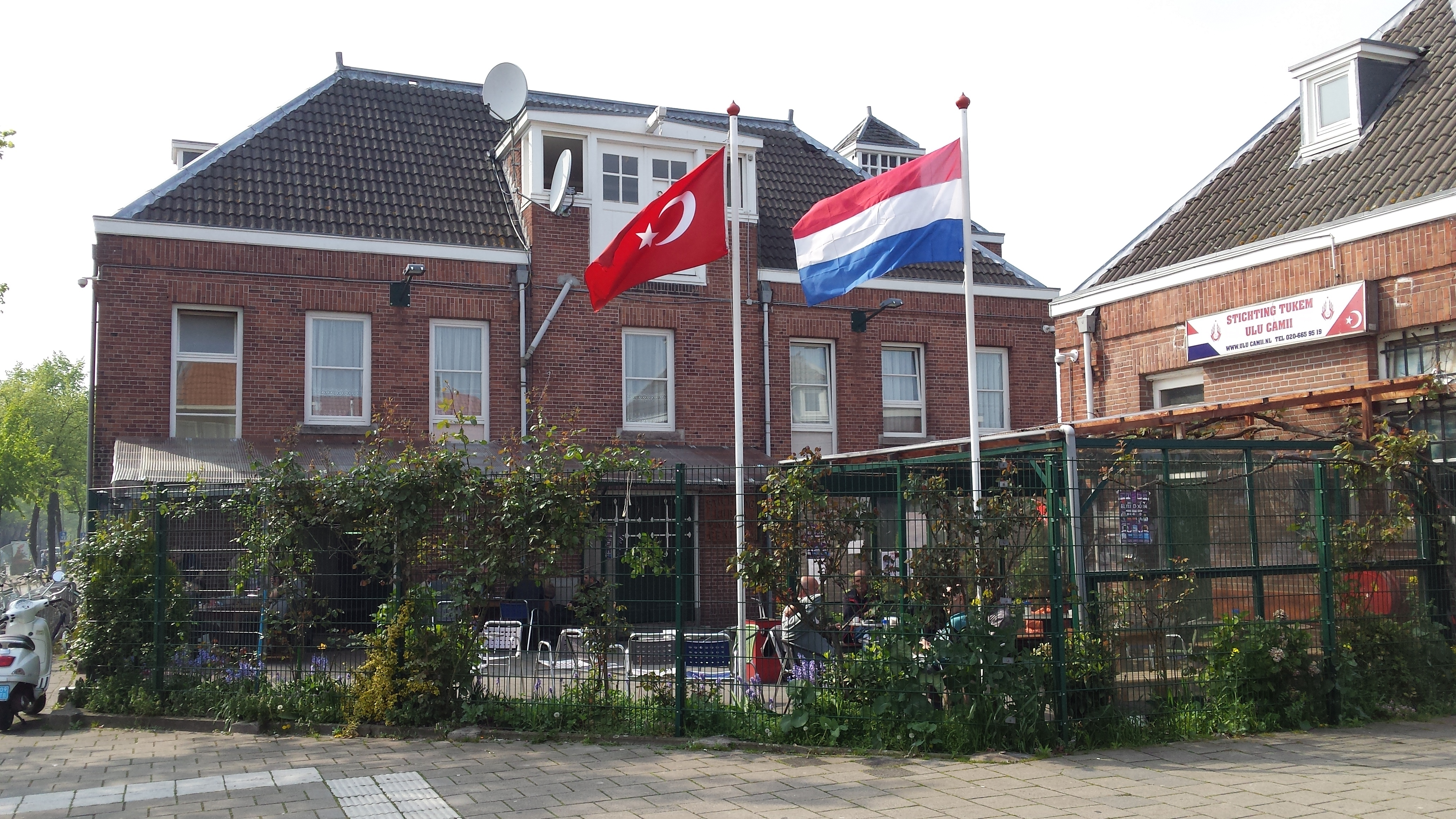 The Turkish Foundation "Ulu Camii" in Amsterdam, The Netherlands